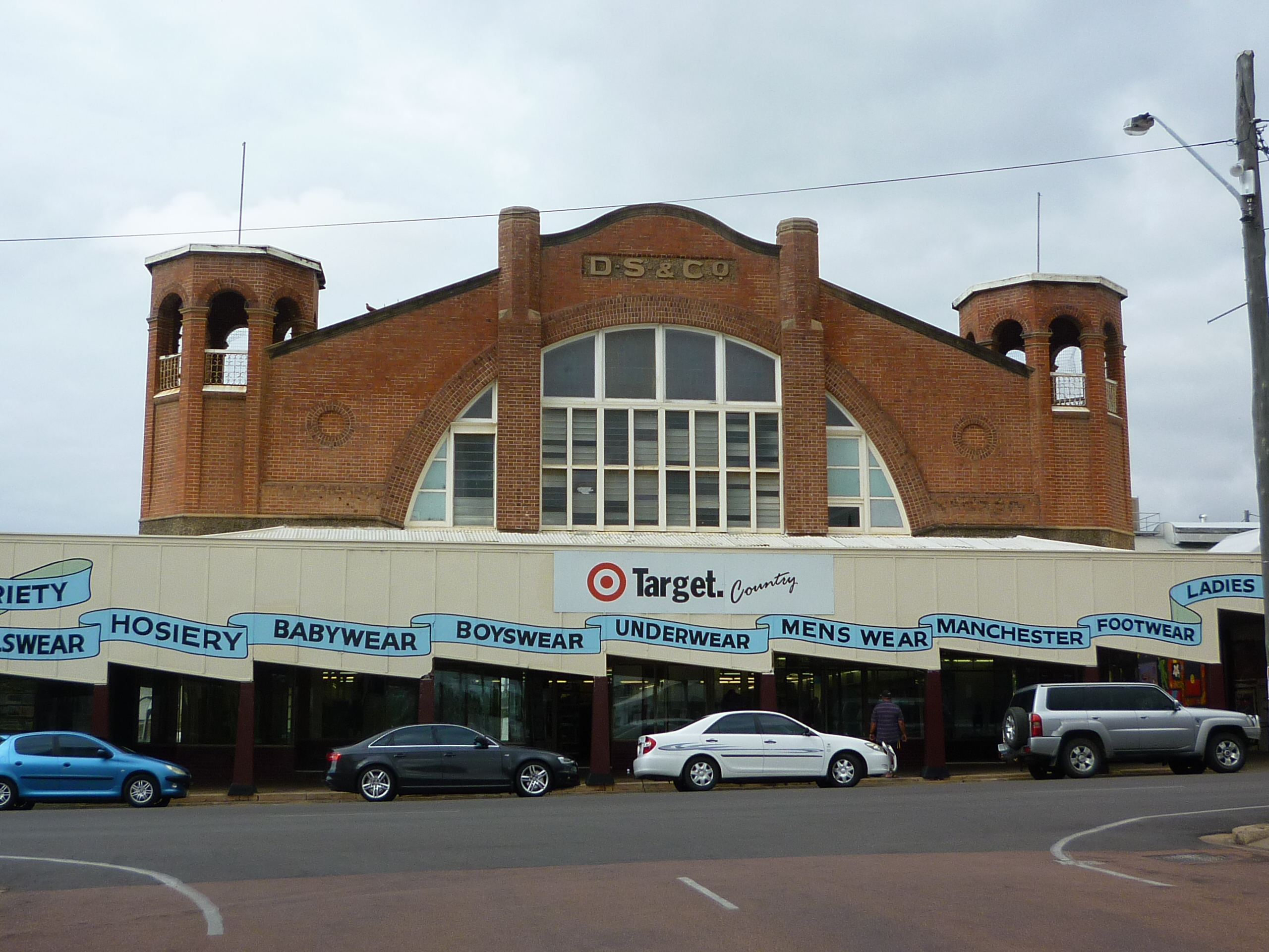 Target Country Store, Charters Towers, North Queensland.